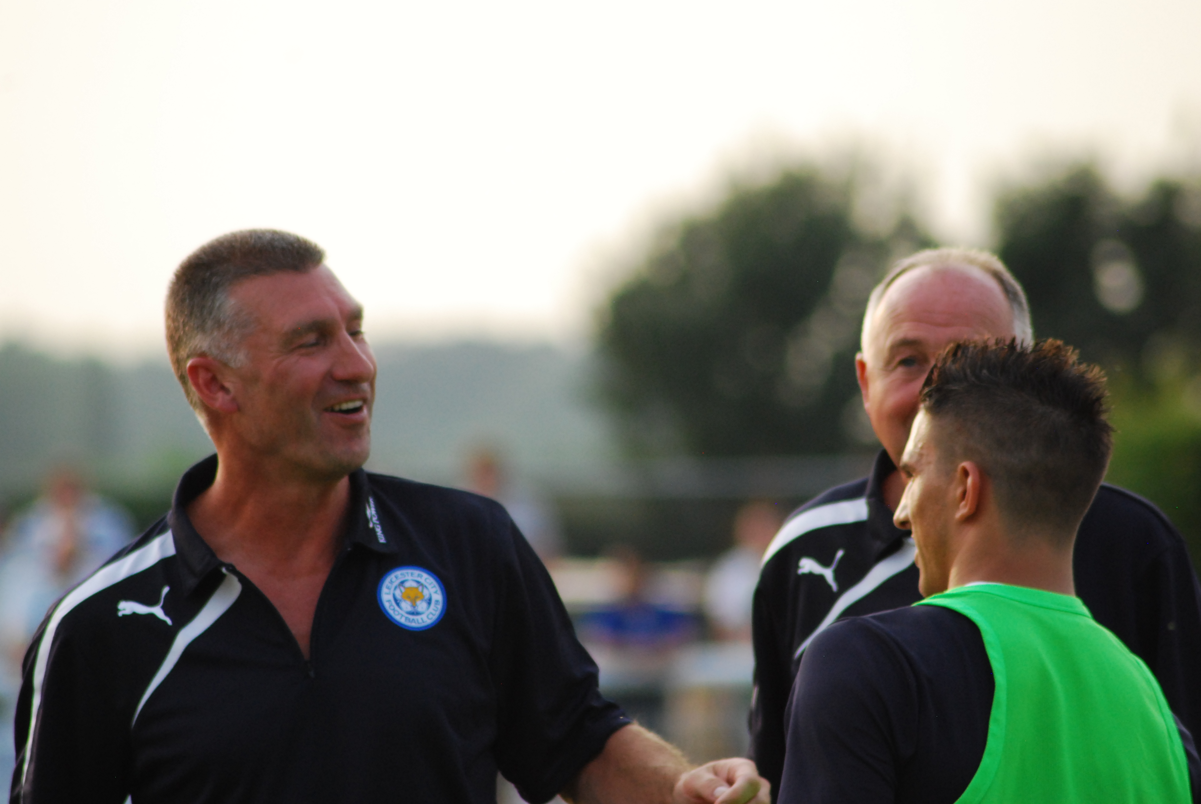 Pre Season 2013